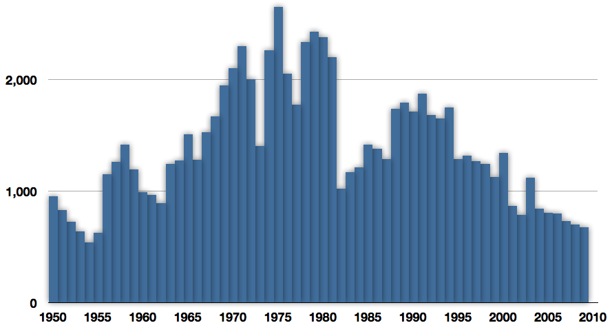 Fisheries recorded capture of wild American eel (Anguilla rostrata) from 1950 to 2009. Based on data sourced from the FishStat database, FAO.